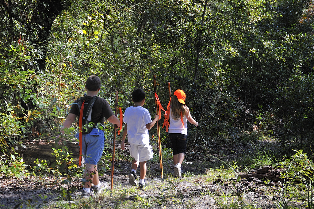 My 3 grandchildren hiking the Florida Trail in Etoniah Creek State Forest